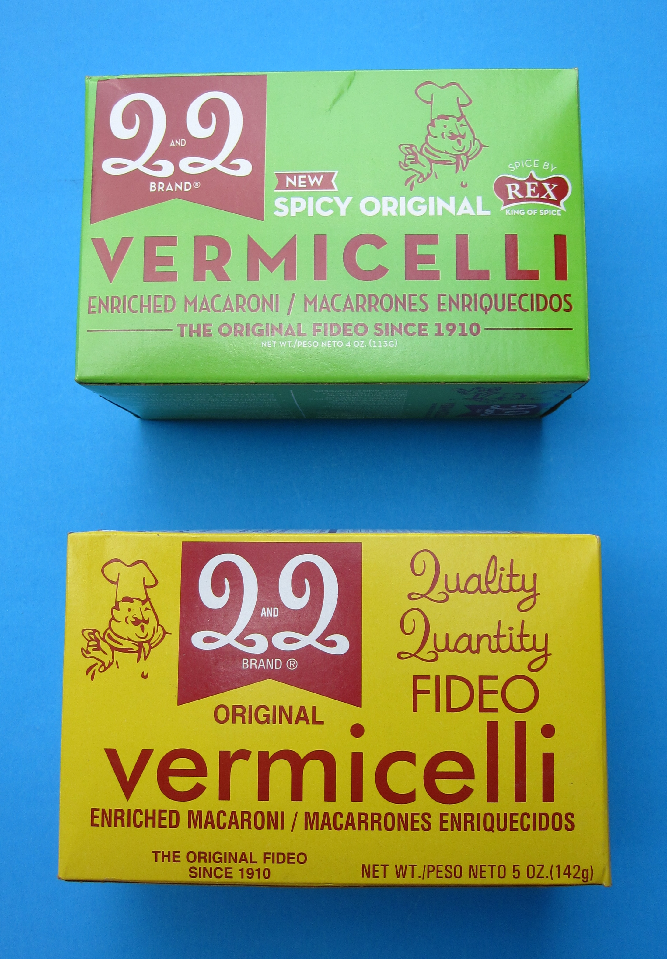 Q&Q Vermicelli (Fideo) from O.B. Macaroni Company of Fort Worth, Texas.